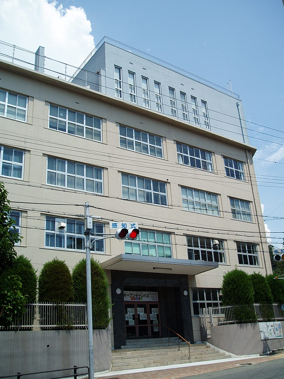 Bldg. #1 of Kobe Yamate University located in Chuo-ku, Kobe, Hyogo Prefecture, Japan.